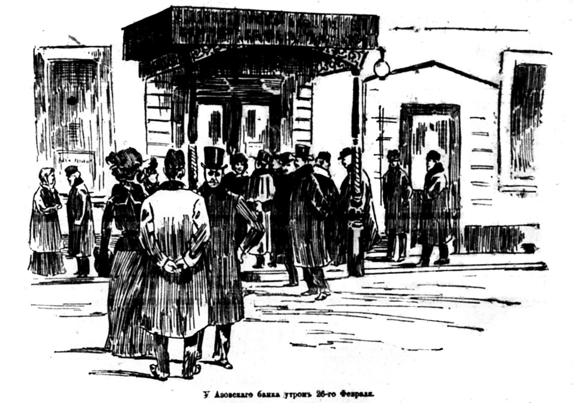 The collapse of the Petersburgsko-Azovky bank. Petersburgsky Listok. Mars 3. № 60. P. 7